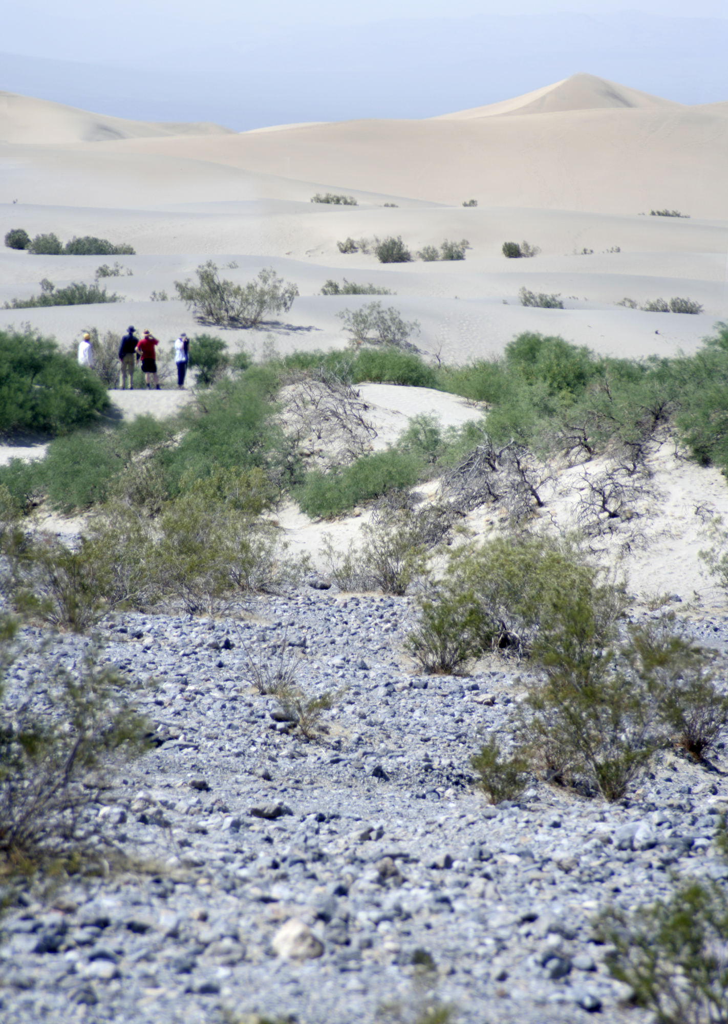 tourists at Death Valley